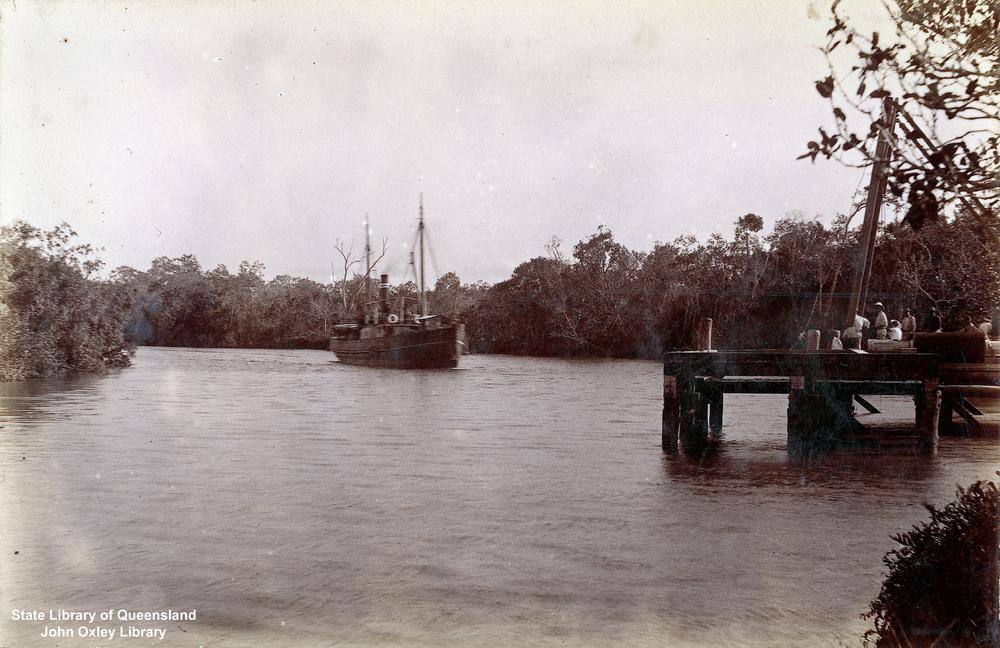 Boat approaching the wharf on Proserpine River, Queensland, ca. 1899 A number of people waiting on the wharf at Proserpine,around 1899. A boat is approaching the wharf on Proserpine River.